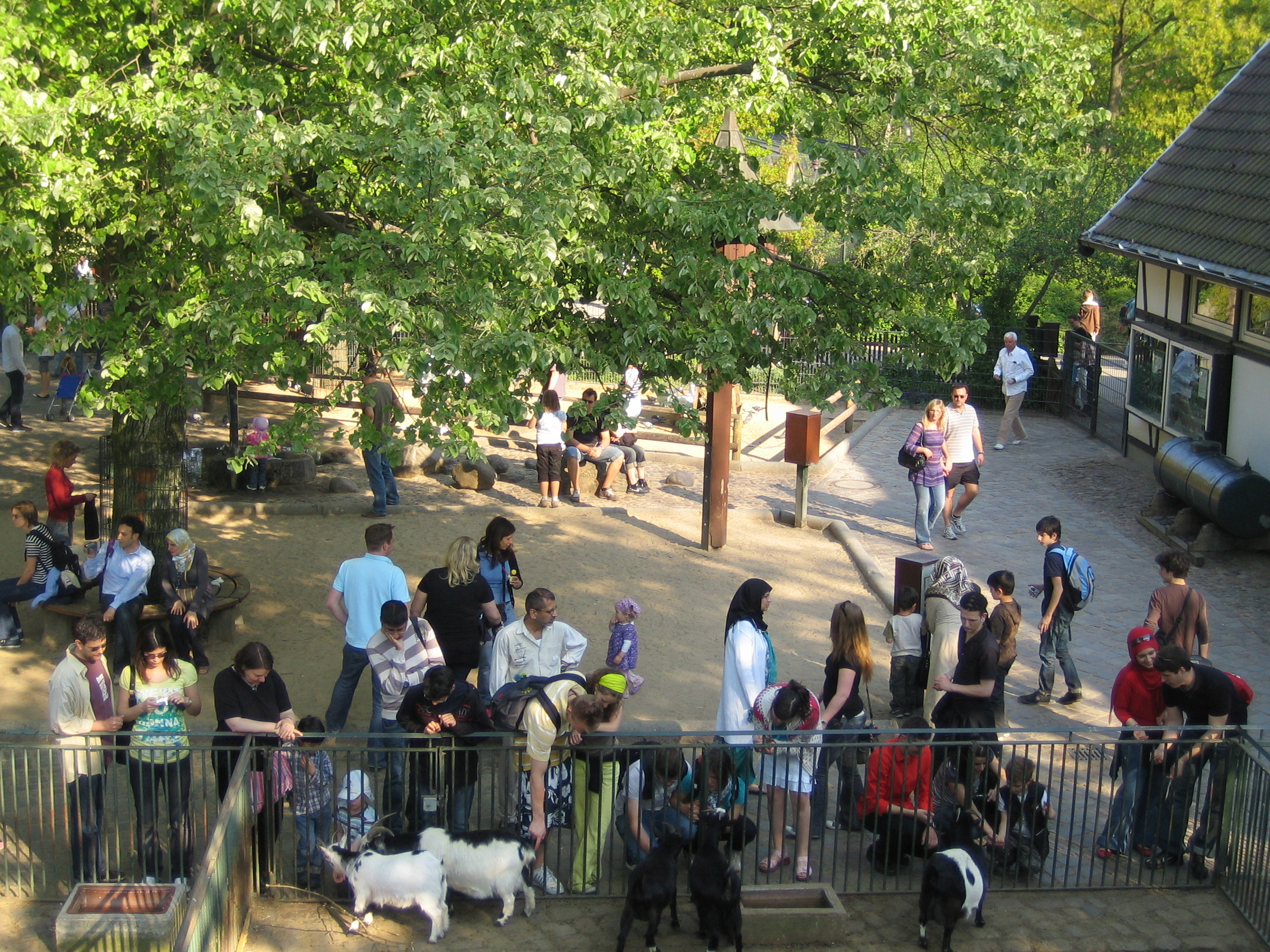 Zoo Berlin, childrens zoo.